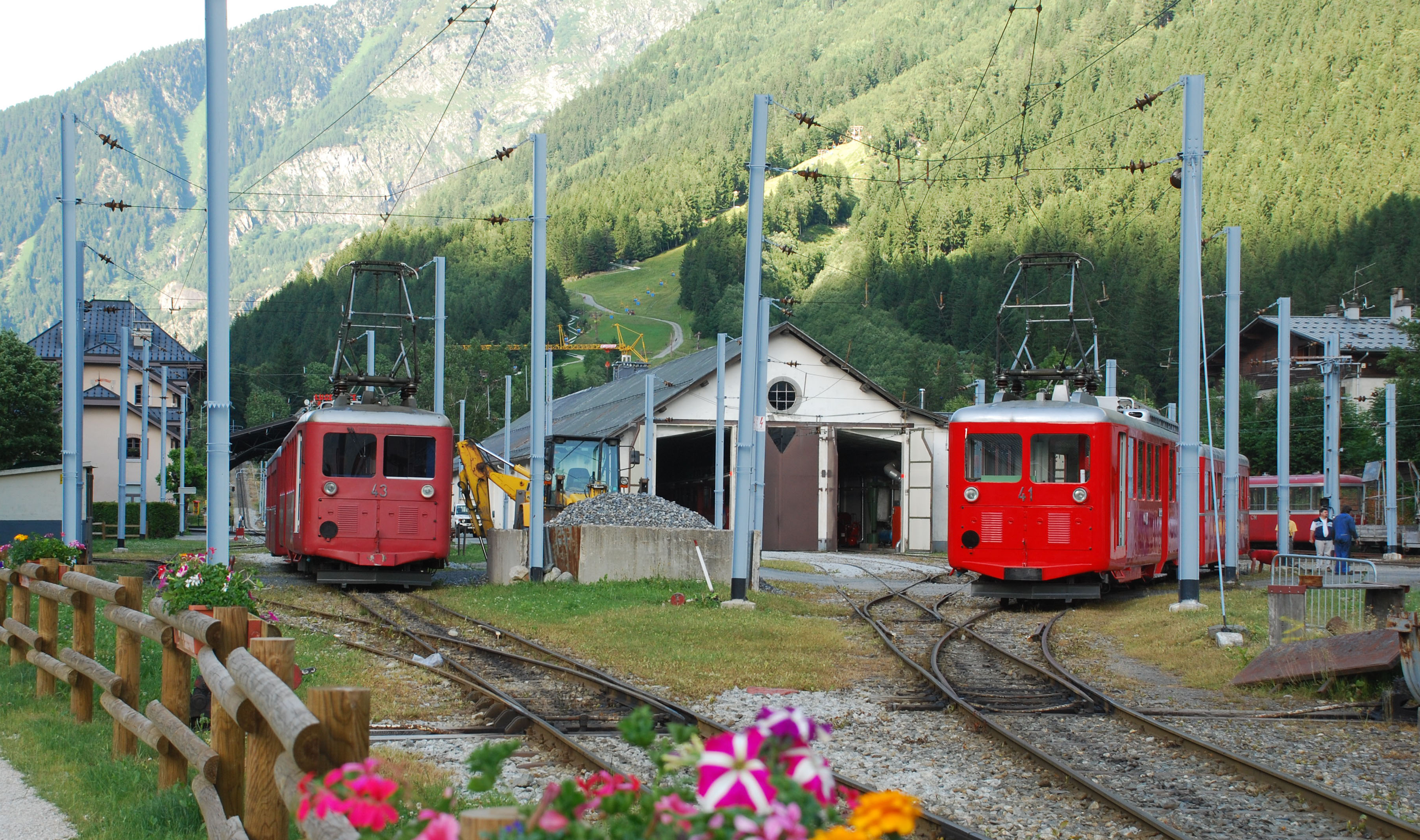 Montenvers railway: EBUs #41 and #43.